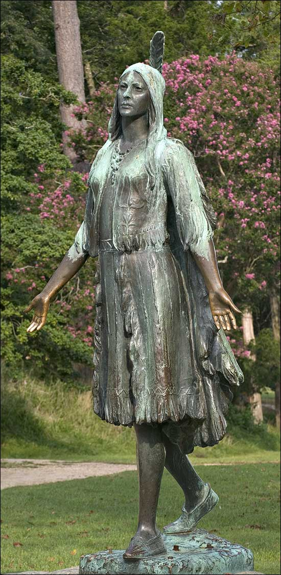 The statue, by William Ordway Partridge, was erected in Jamestown, Virginia in 1922